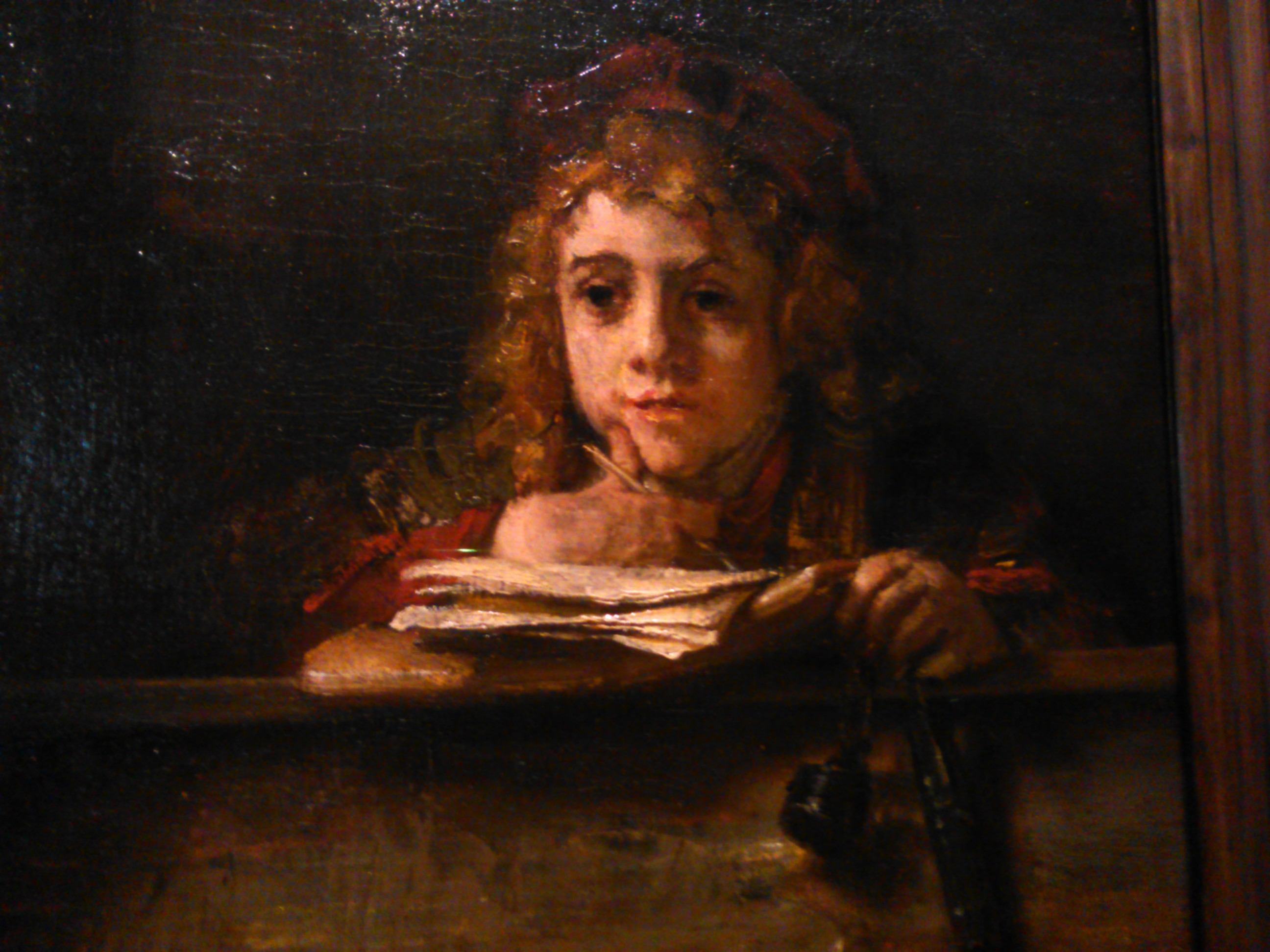 Rembrandt van Rijn, Rembrandts son "Titus at his desk", 1655, Museum Boijmans Van Beuningen, Rotterdam, The Netherlands.